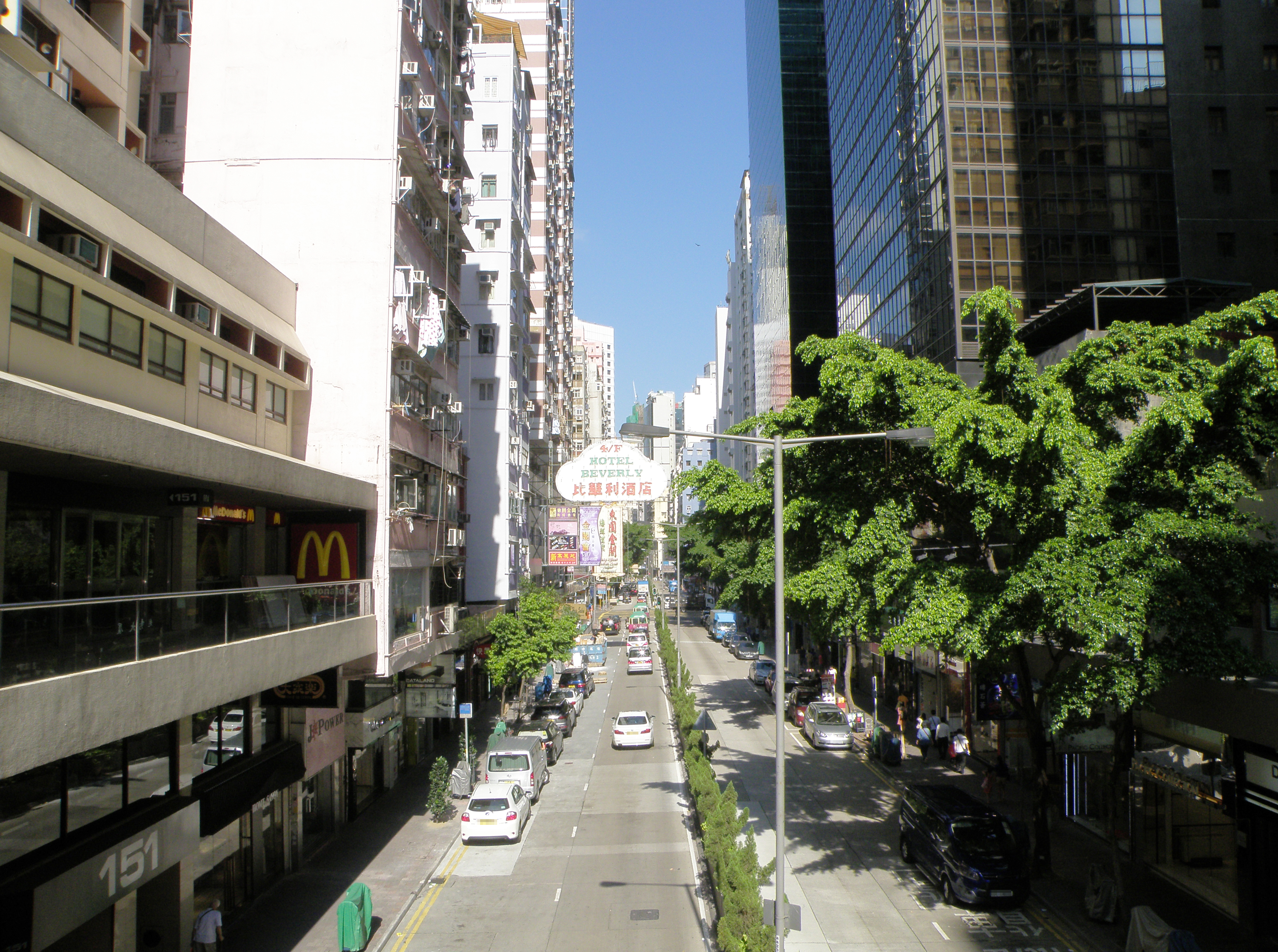 Lockhart Road in Wan Chai, Hong Kong.